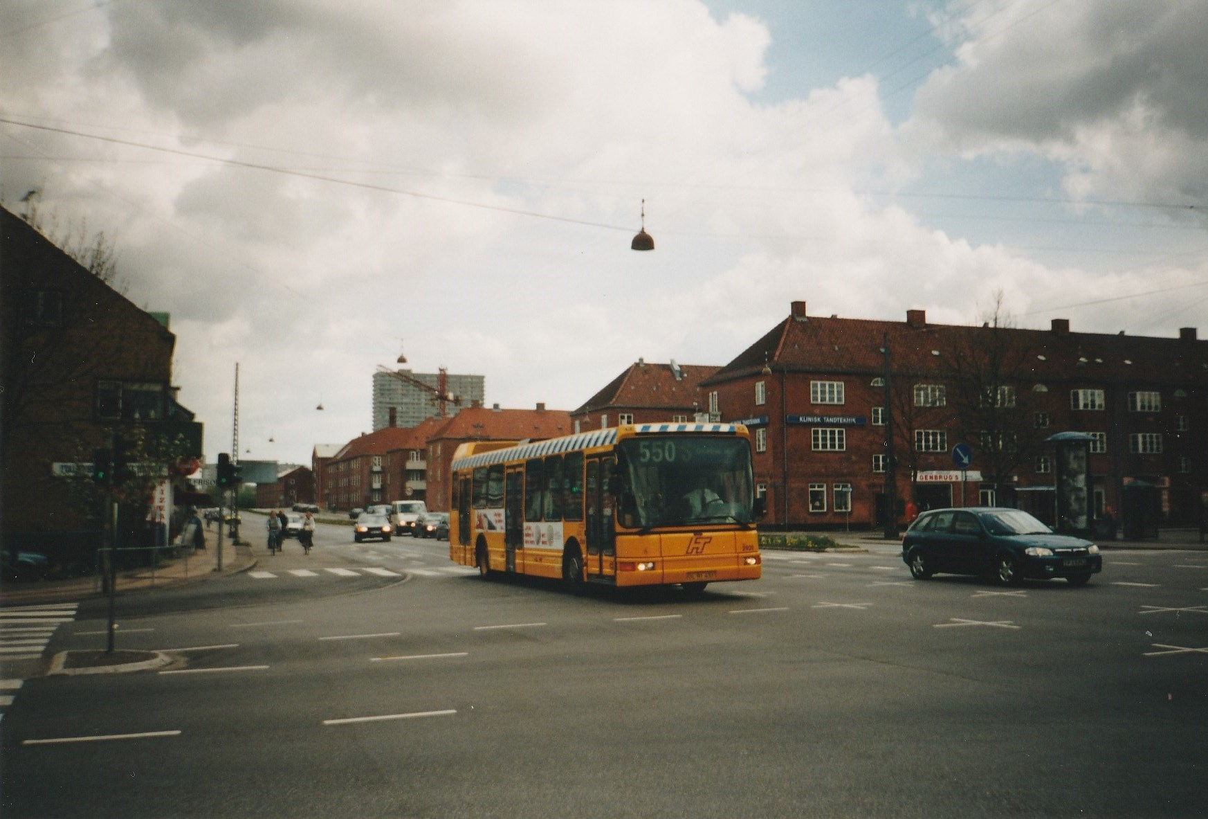 City-Trafik bus 2928 on HT bus line 550S on Roskildevej at Ålholm Plads in Valby in Copenhagen.